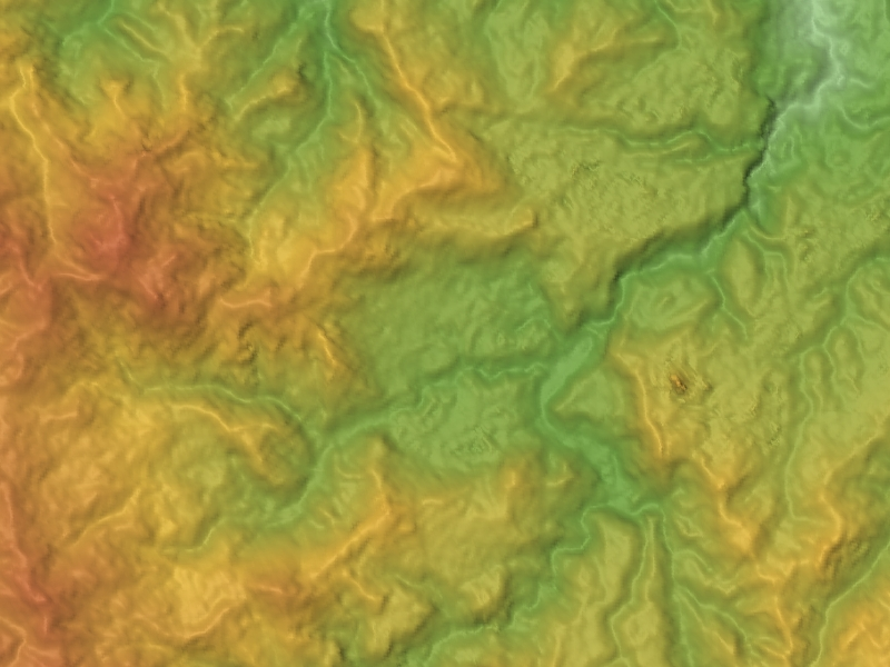 Hijiori Caldera in Okura, Yamagta Prefecture, Honshu, Japan.